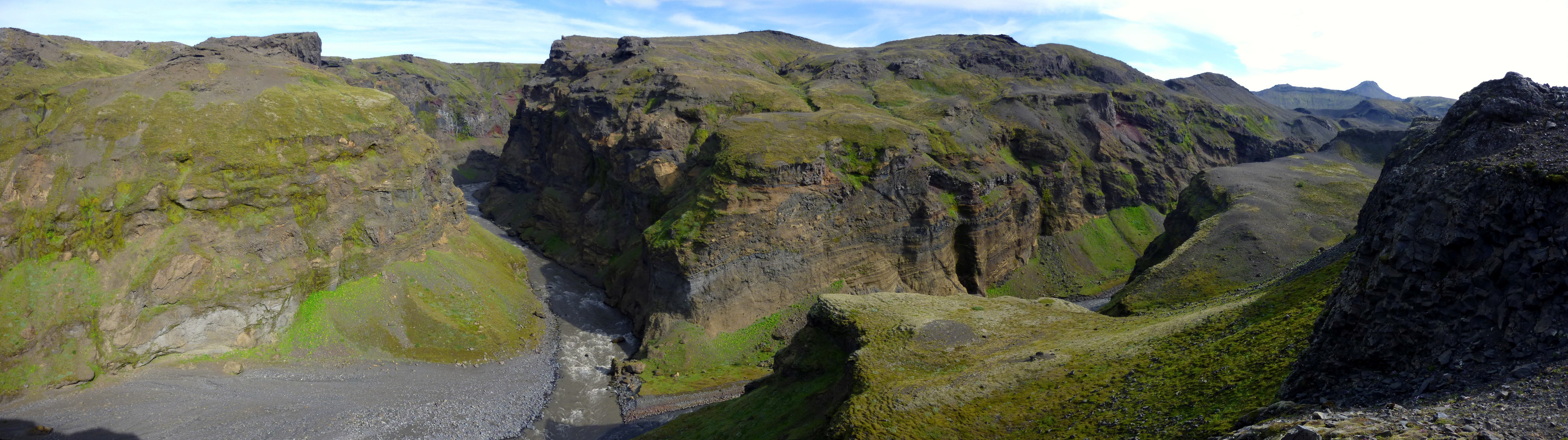 Confluence of Markarfljót and Fremri-Emstruá , on the Laugavegur hiking trail, in iceland. Panorama created with Hugin from 3 wide angle pictures (Panasonic ZX1).